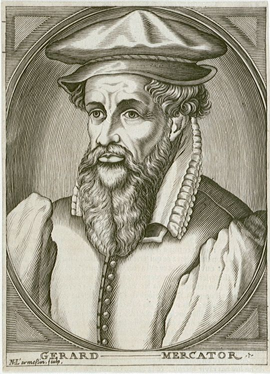 Portrait engraving (135mm by 187mm) of Gerard Mercator: This was published in the first volume of Joannis Francisci Foppens' Bibliotheca Belgica in 1739.[1][2]